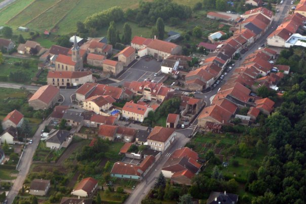 The village from above